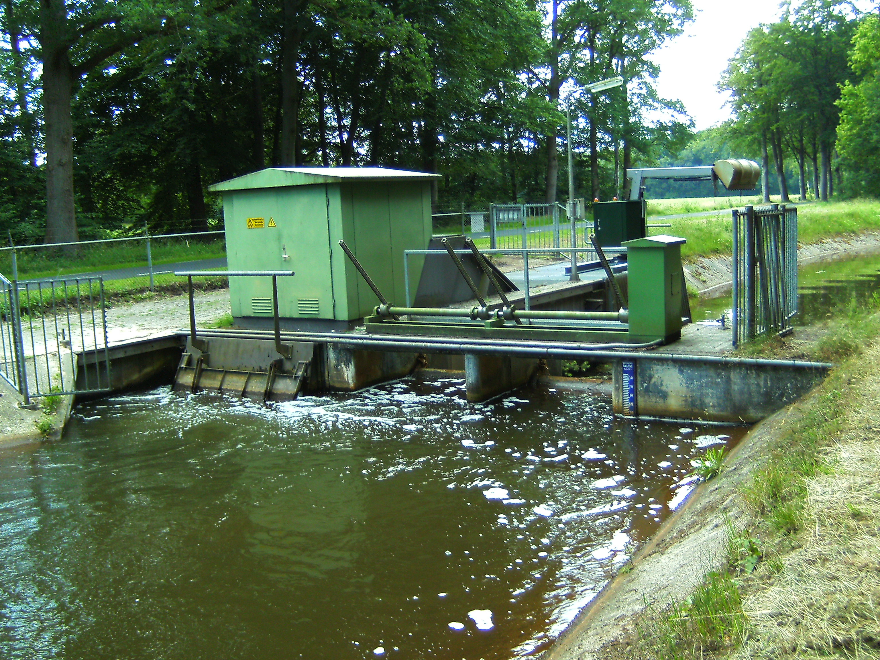 Remote controlled pumping station in a canal for water management in the Netherlands